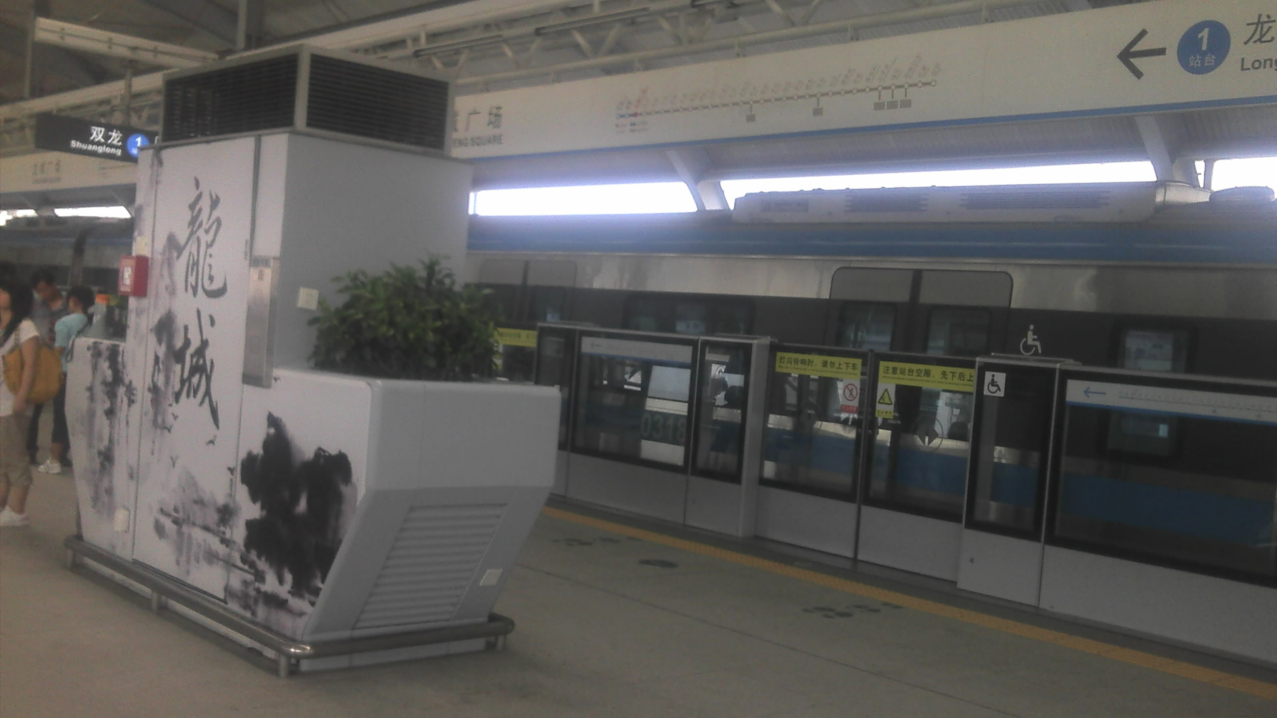 This photo was taken as Oct 2, 2011.